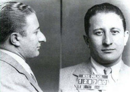 Mugshot of Carlo Gambino boss of Gambino Crime Family (1930's) カルロ・ガンビーノ、1930年代の写真